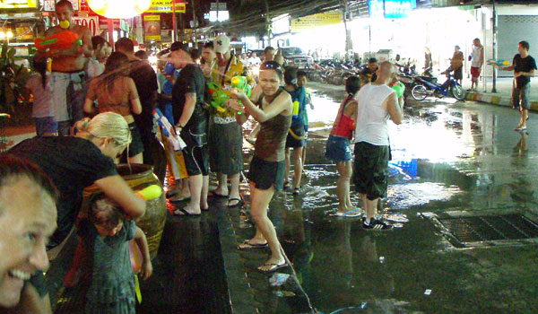 Songkran, Water fights at night April 12th (Chaweng Beach, Koh Samui, 2008)